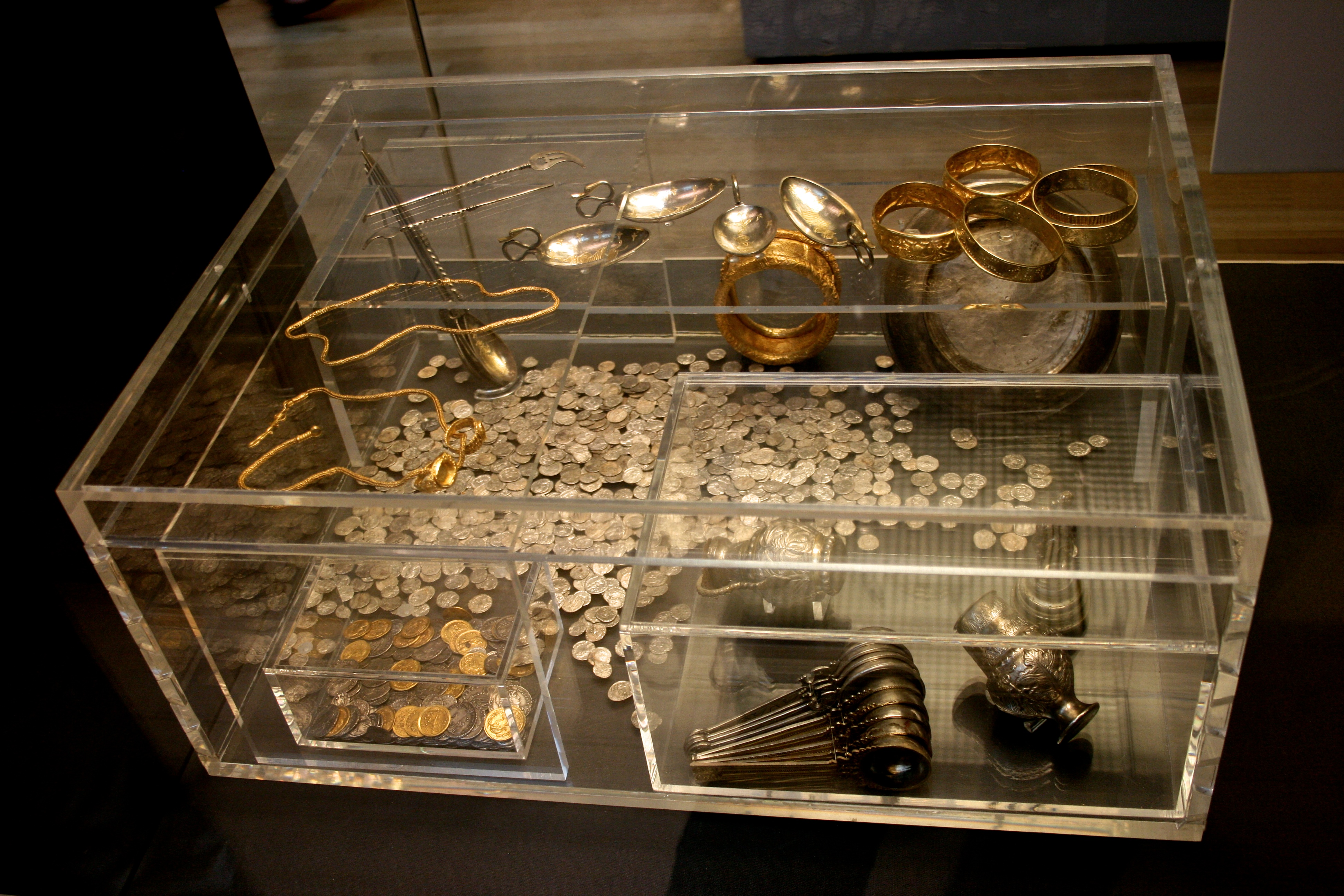 Hoxne Hoard: Display case at the British Museum showing a reconstruction of the arrangement of the hoard treasure when excavated in 1992.